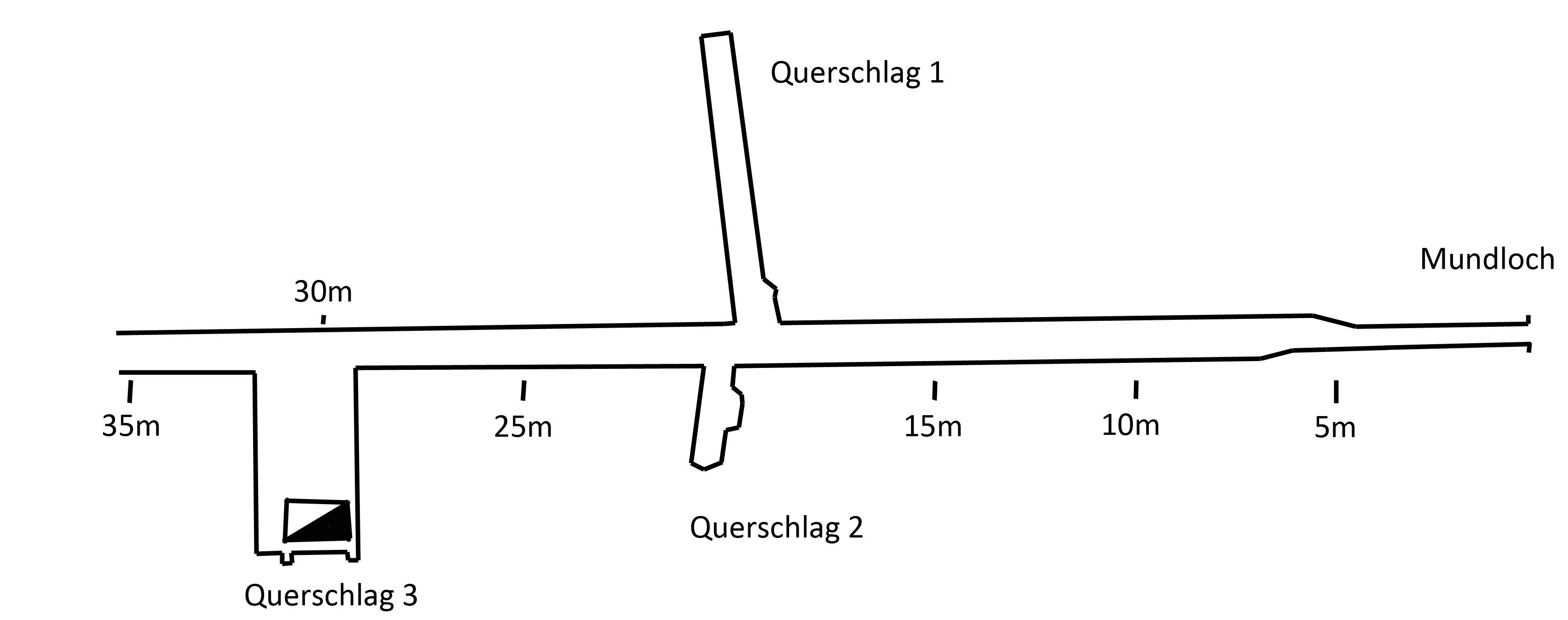 Ground plan Goldgrube mine near Bad Homburg.